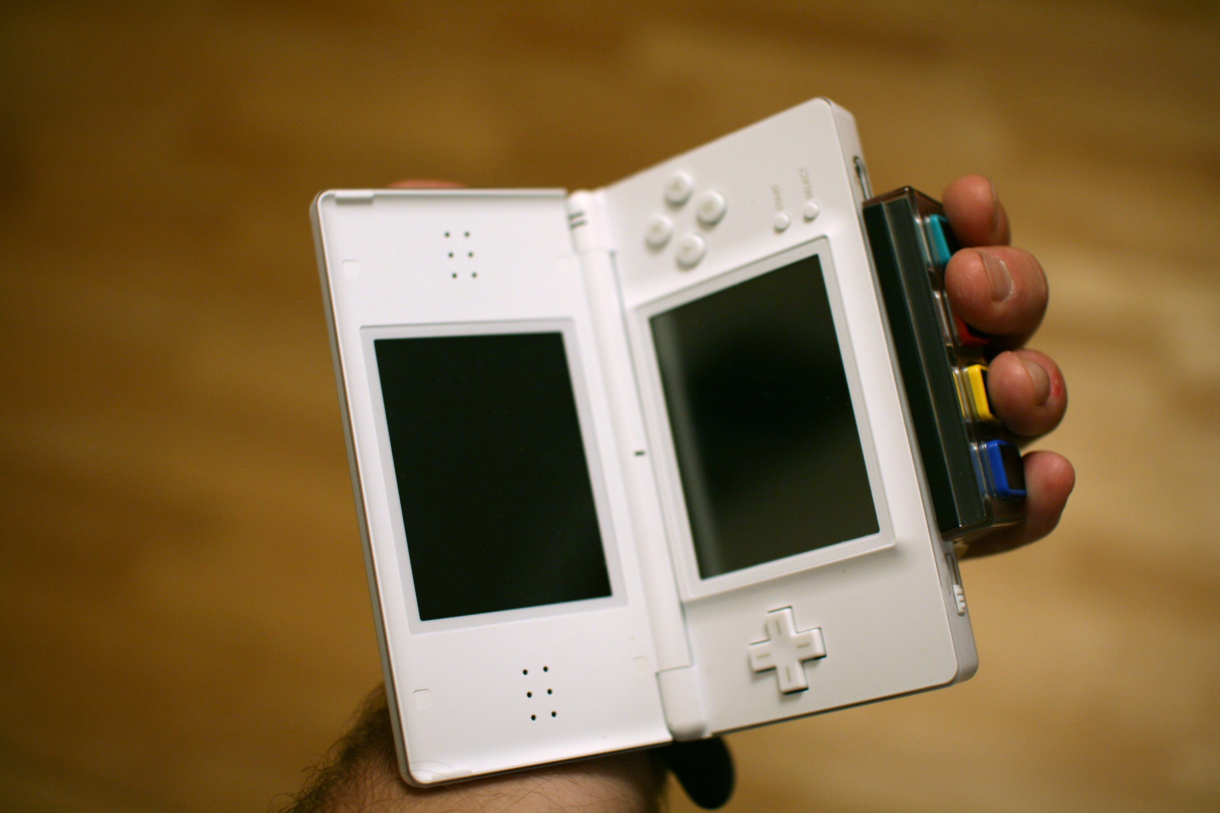 The "guitar grip" interface used for DS Guitar Hero video games, showing 4 colored buttons on a device attached to the DS.